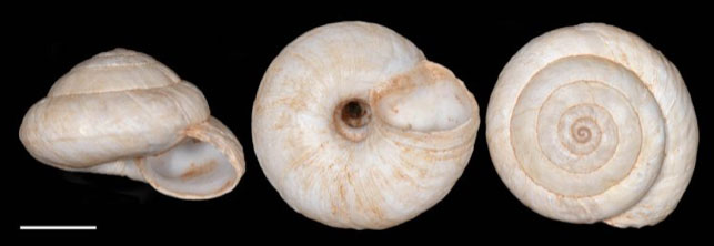 Composition of three views of the shell of Orexana ultima. Locality: Lomo del Aceituno, Fuerteventura, Las Palmas (Spain)